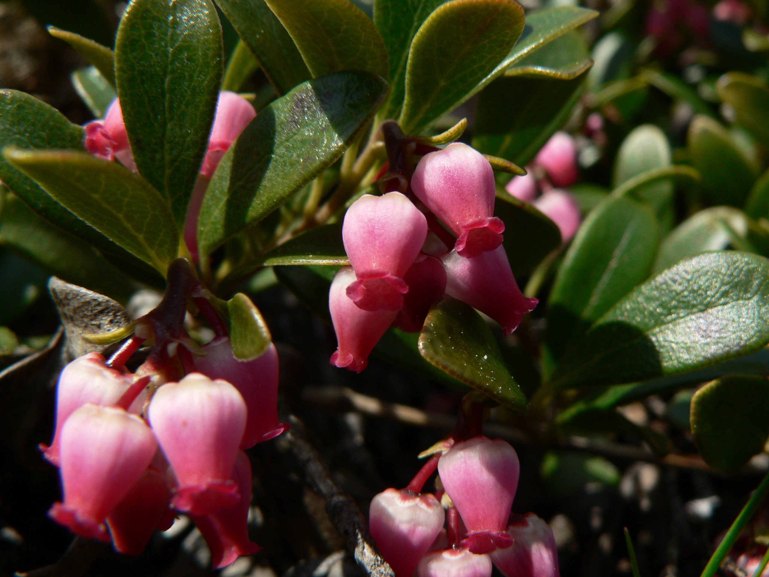 Kinnikinnick